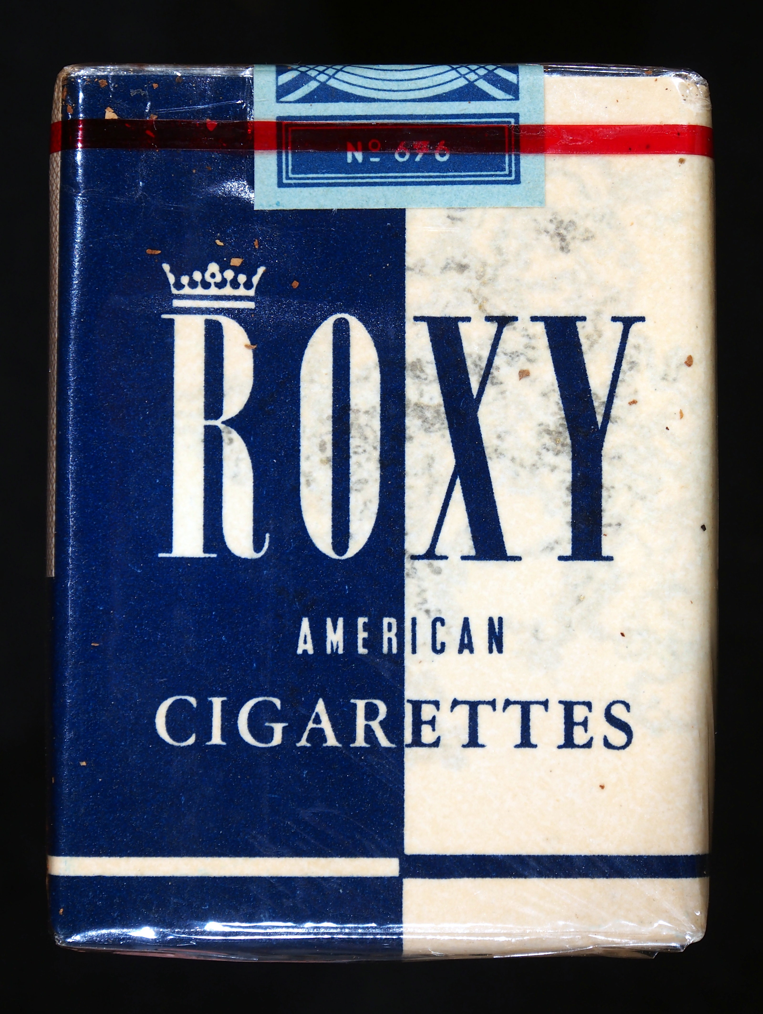 Very old packaging that is not produced and/or not sold any more.